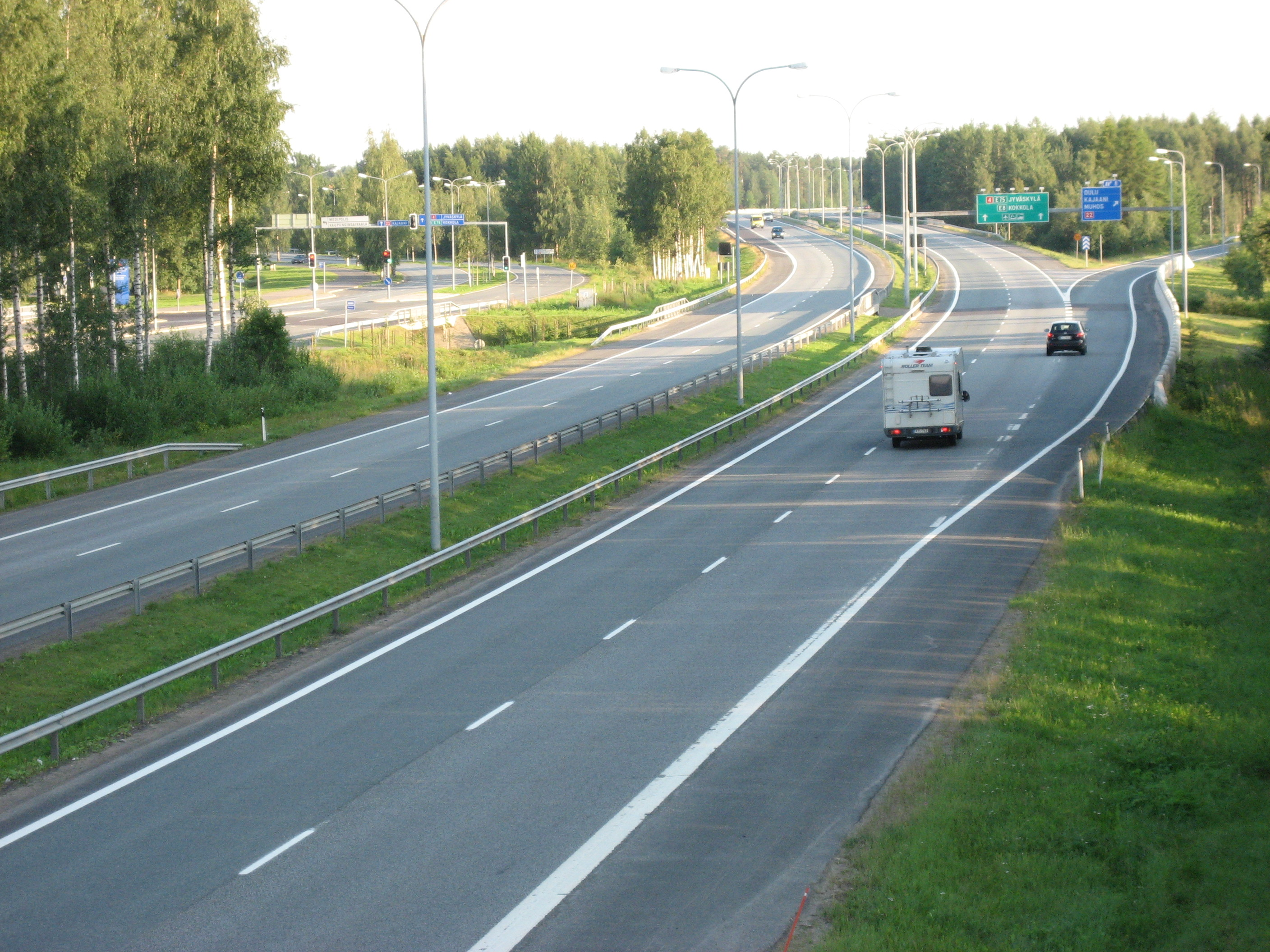 National road 4 (E8/E75) in Kontinkangas, Oulu, Finland. The picture has been taken from the Kajaanintie bridge, looking south.